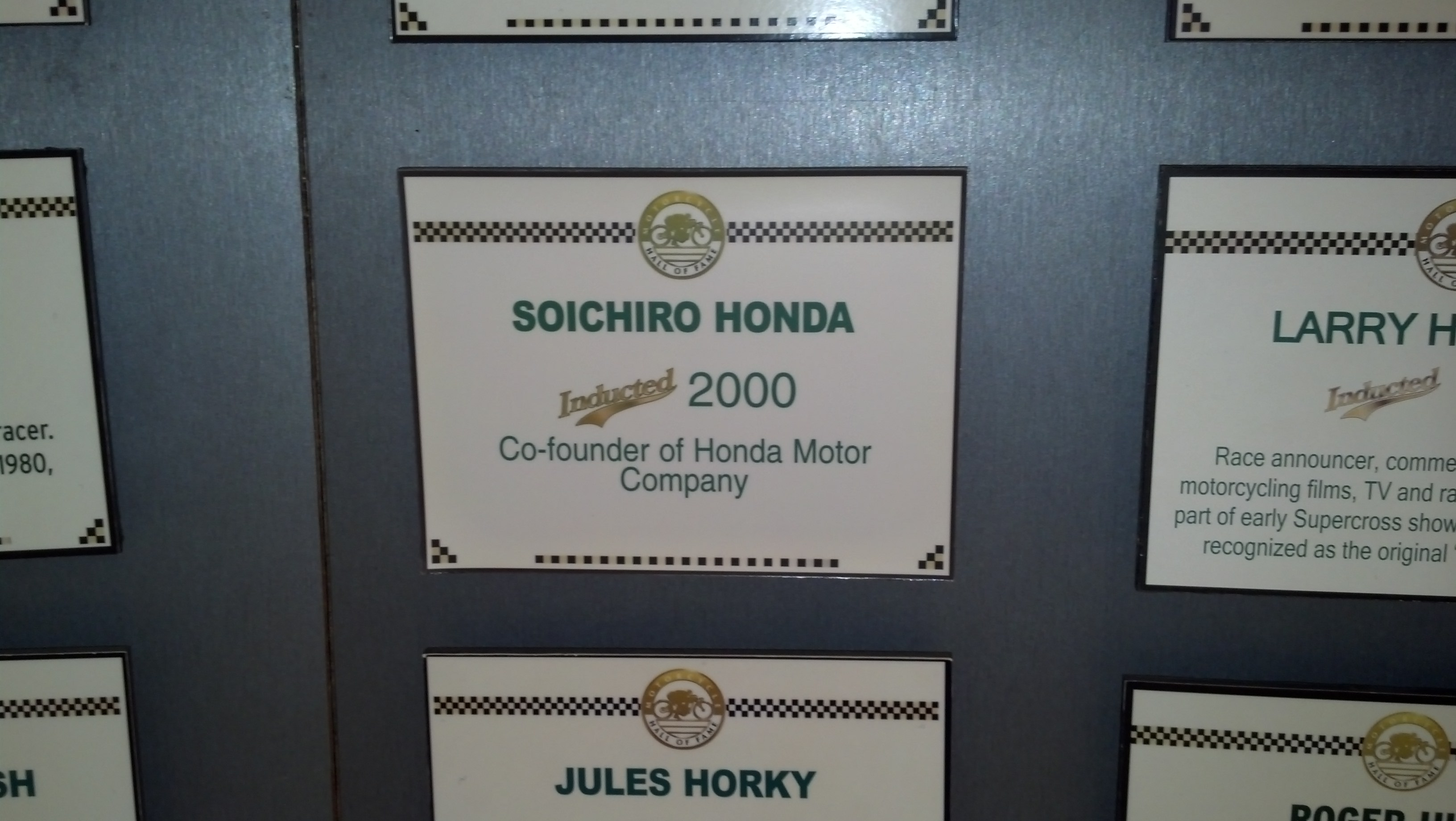 Name plate of Soichiro Honda, co-founder of Honda Motor, photoed in Motorcycle Hall of Fame Museum in Pickerington, OH 43147 U.S.A.